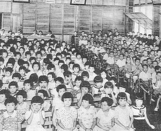 Davao Japanese School classroom in 1930s